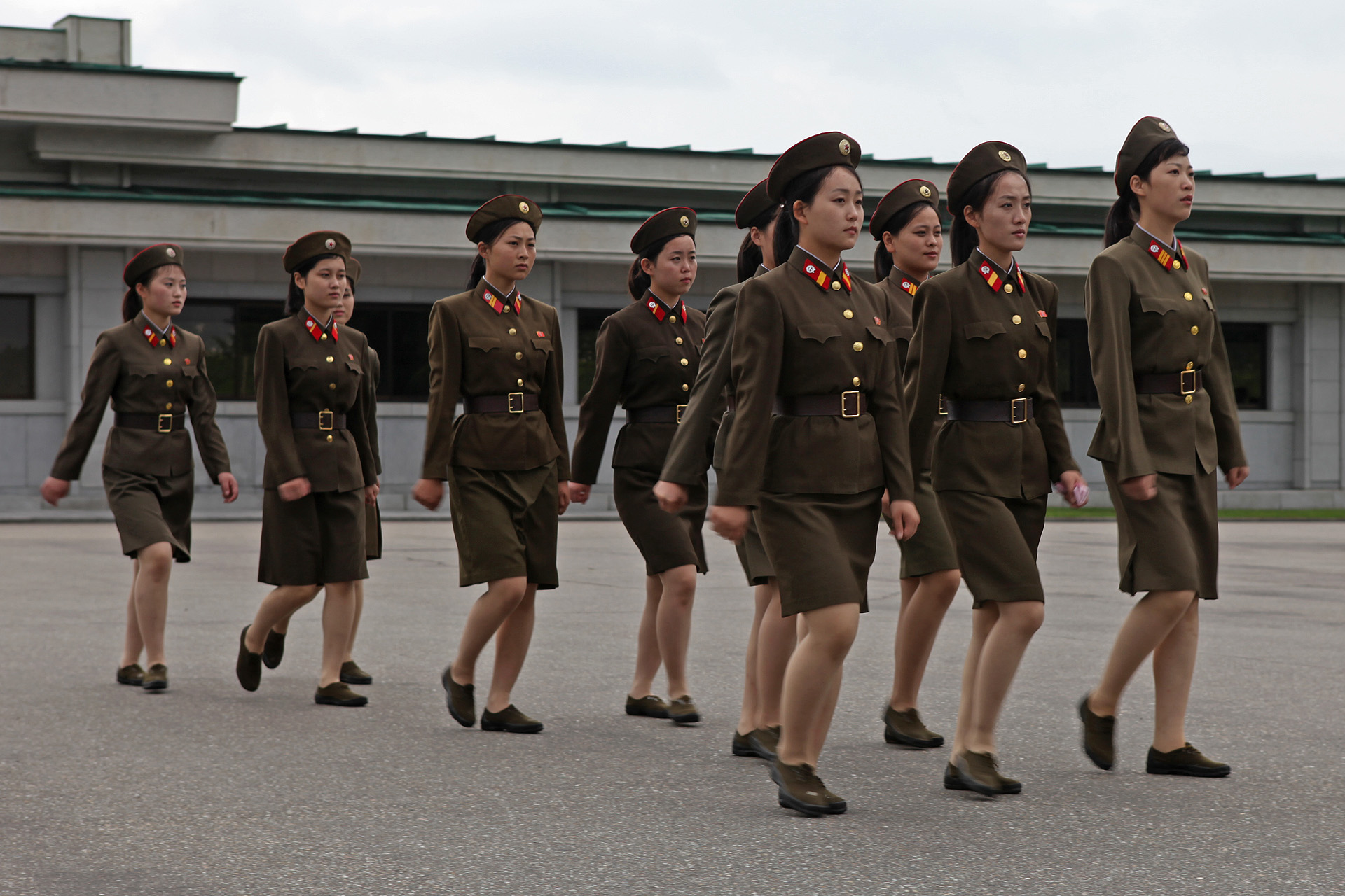 North Korea is the most militarized country in the world today, having the fourth largest army in the world, at about 1100000 armed personnel.